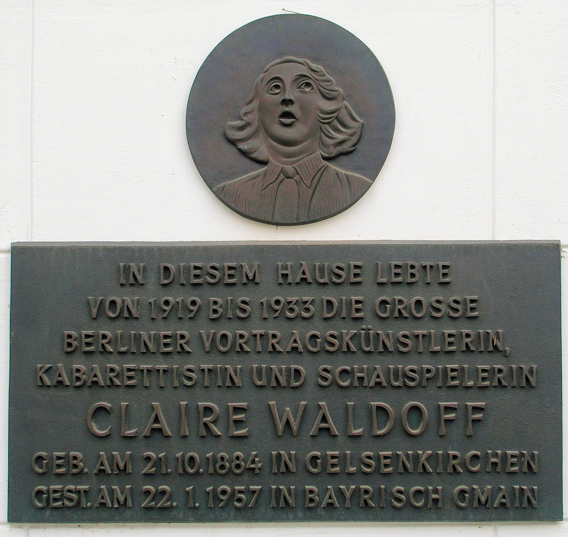 Memorial plaque, Claire Waldoff, Regensburger Straße 33, Berlin-Schöneberg, Germany Koordinate:52°29′45″N 13°20′22″E / 52.49583°N 13.33944°E